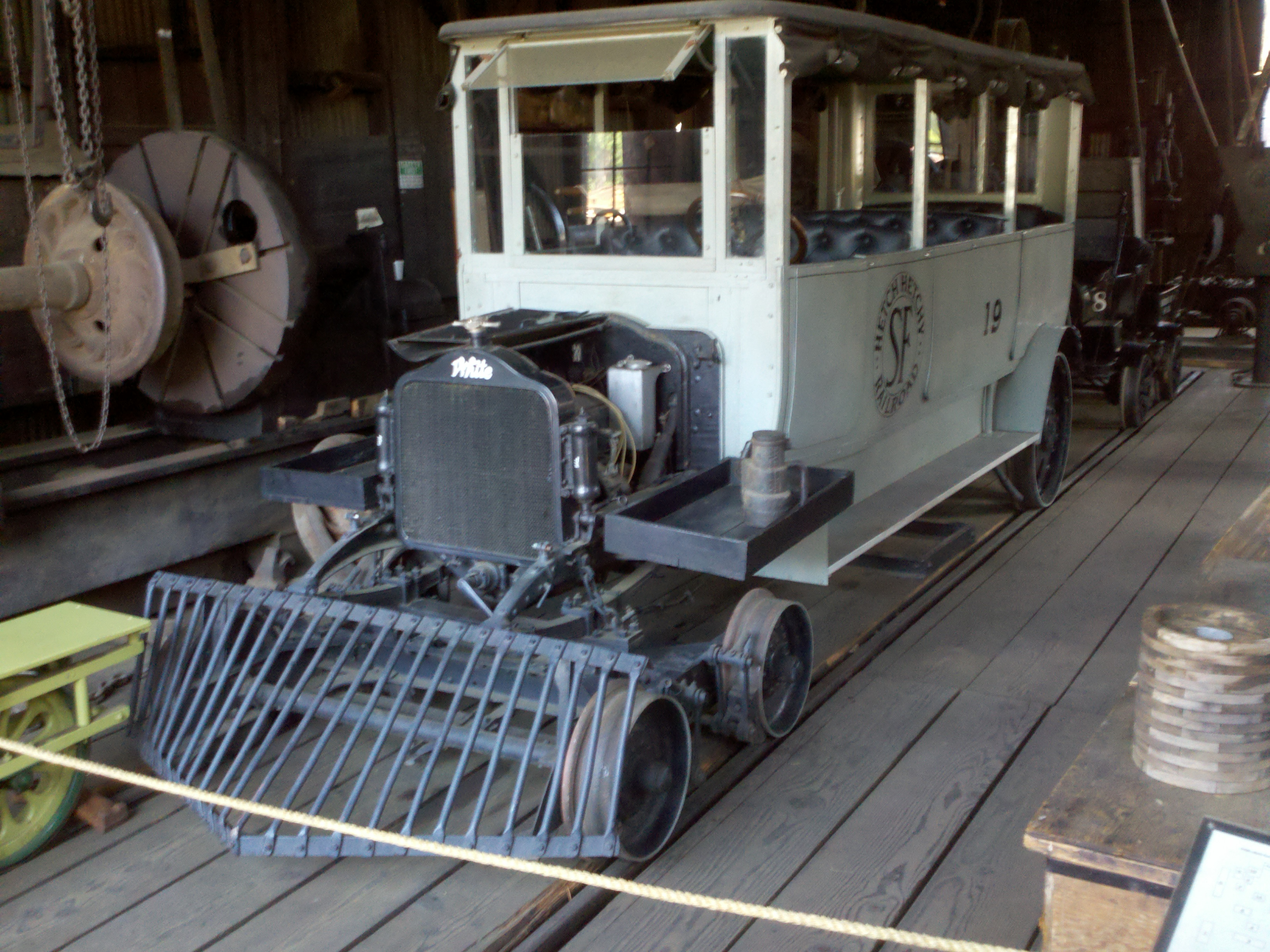 A White railcar, previously operated by San Francisco's Hetch Hetchy Railroad, on display at Railtown 1897 in Jamestown, California